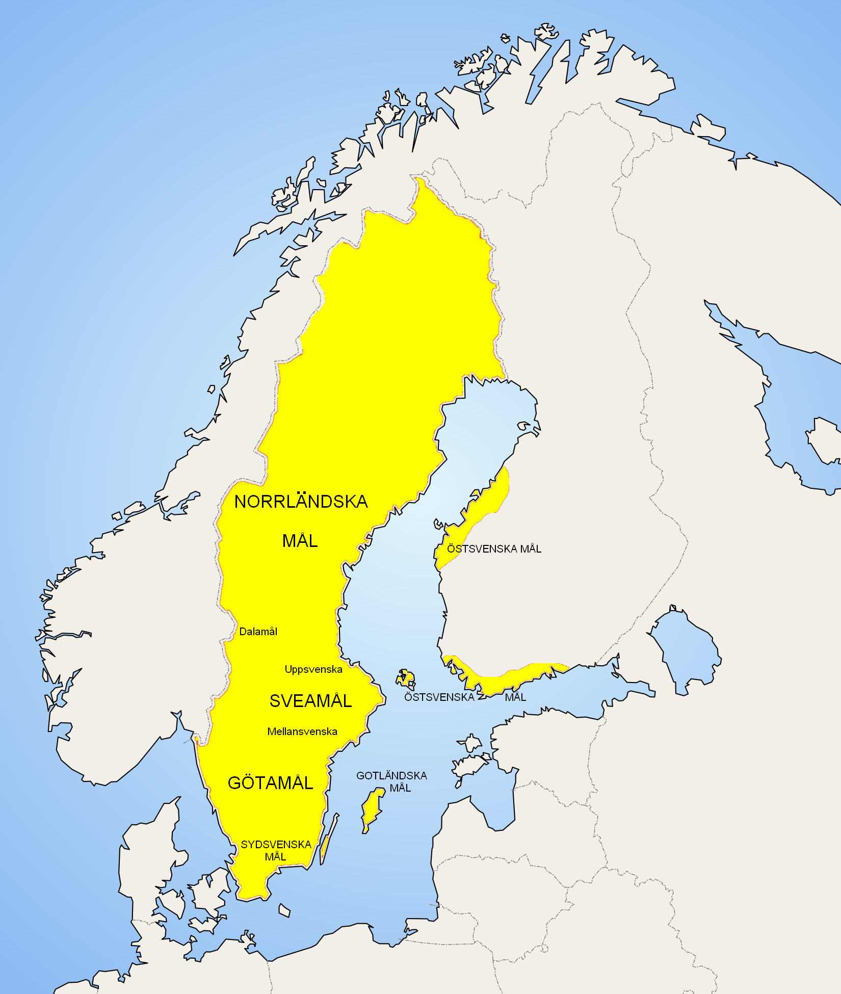 Map of Swedish dialects